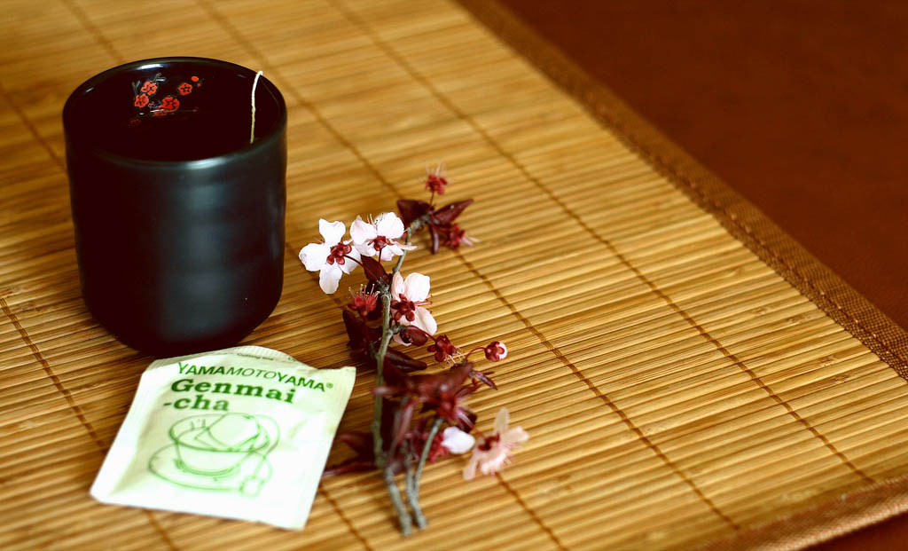 Genmaicha ("brown rice tea", Japanese green tea with roasted brown rice) by Yamamotoyama